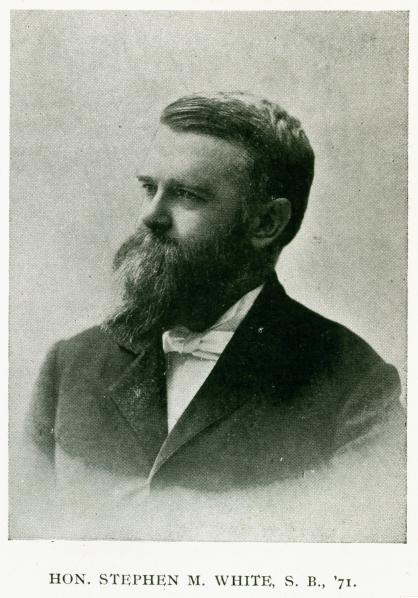 Hon. Stephen M. White as shown in "Souvenir of Santa Clara College" published for the College's golden jubilee in 1901. Before 1923, Image of the Public Domain.